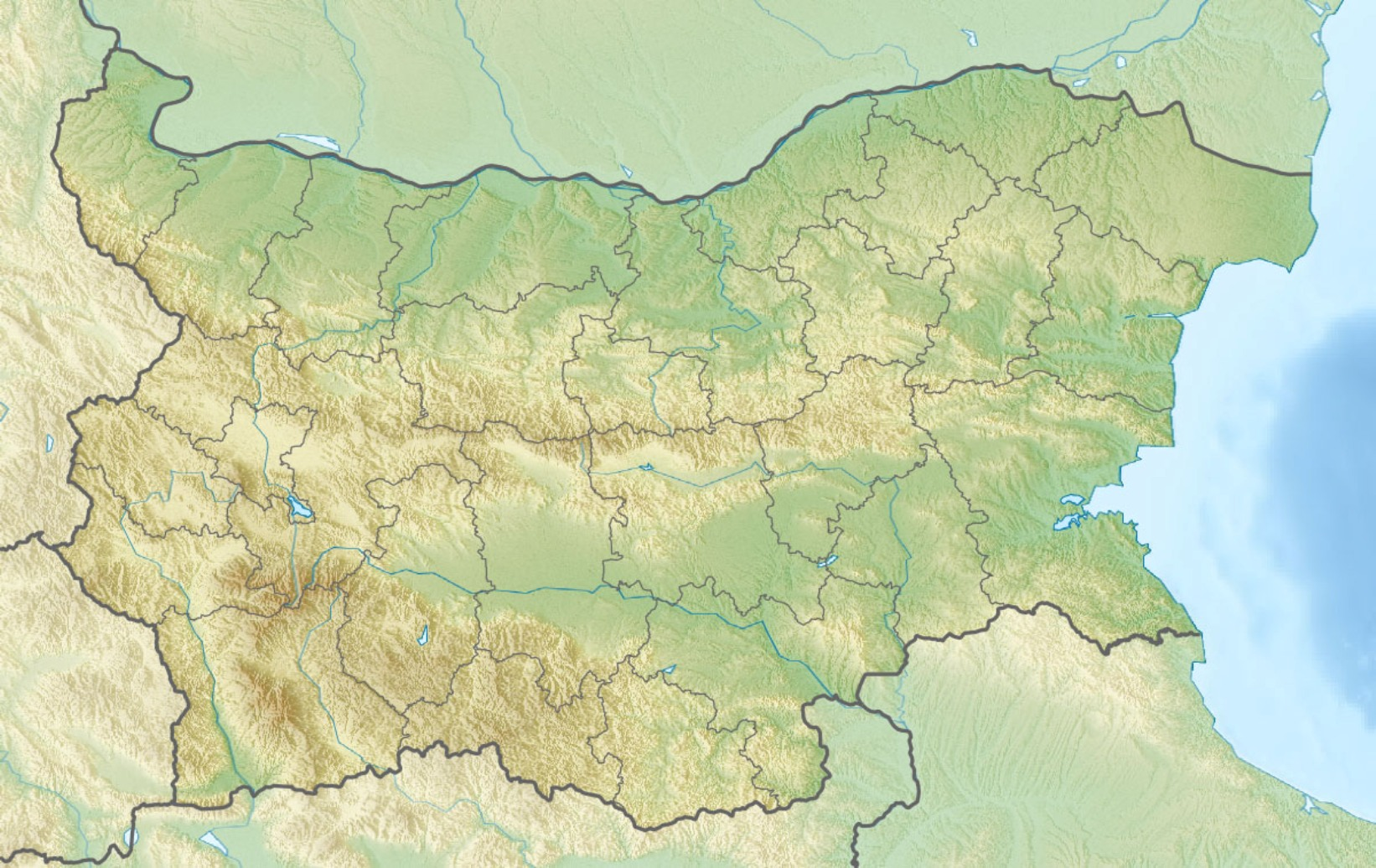 Location map of Bulgaria Equirectangular projection, N/S stretching 130 %. Geographic limits of the map: N: 44.4° N S: 41.1° N W: 22.1° E E: 28.9° E